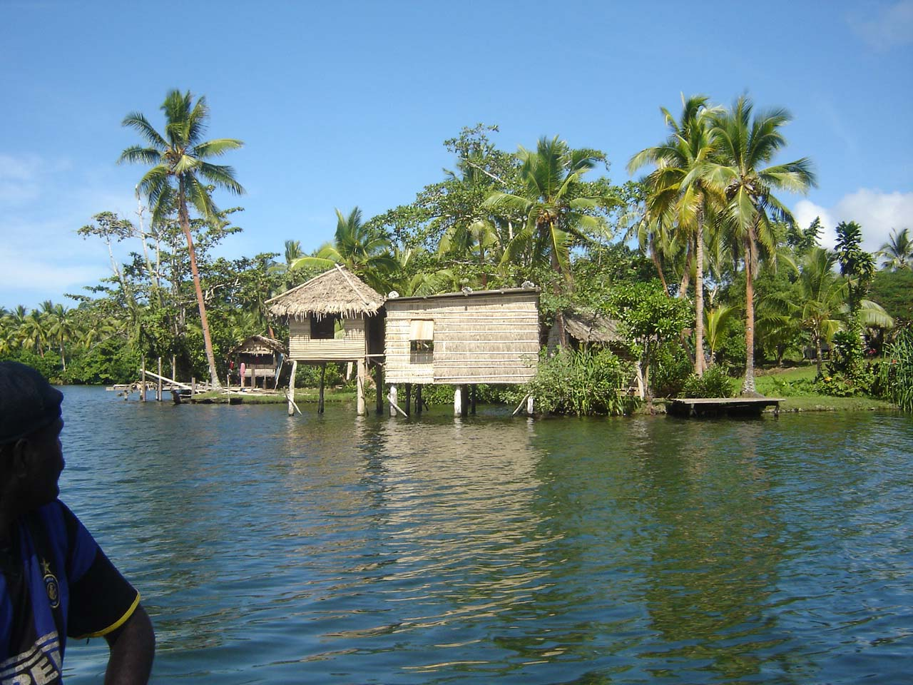 view of a typical house besides the lake